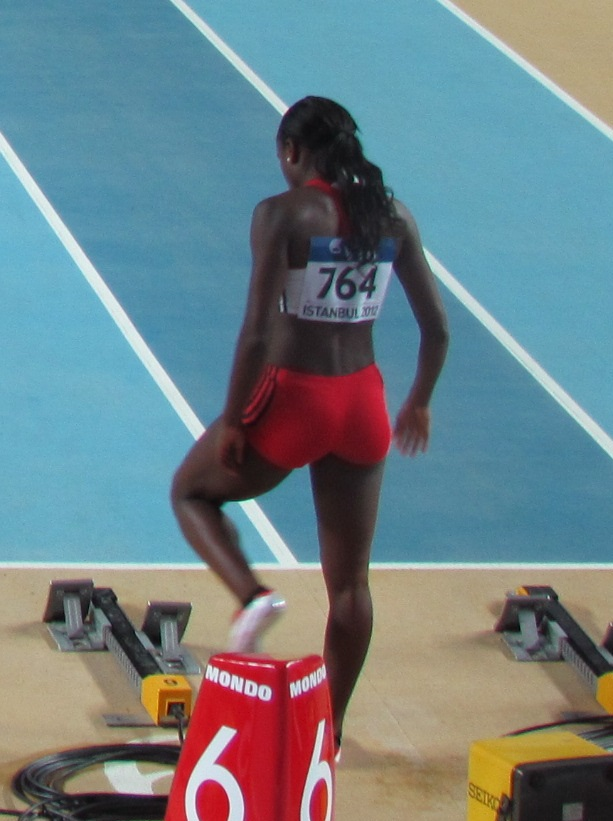 The 2012 IAAF World Indoor Championships in Athletics was the 14th edition of the global-level indoor track and field competition and was held between March 9–11, 2012 at the Ataköy Athletics Arena in Istanbul, Turkey. This cropped photo shows Aleesha Barber.